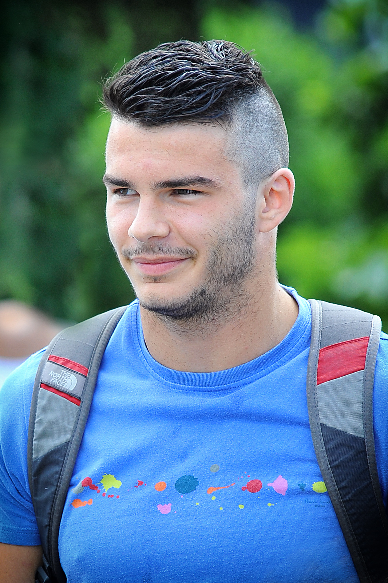 Arthur Bonneval at training